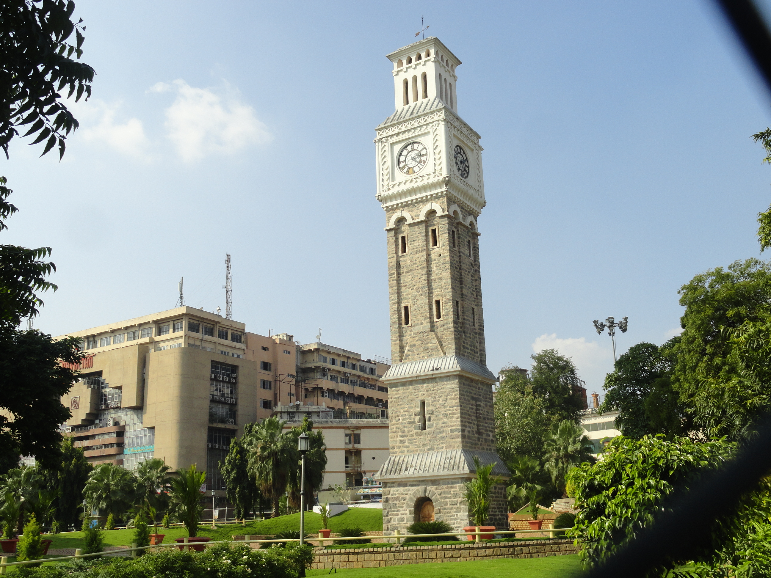 a clock tower in secunderabad